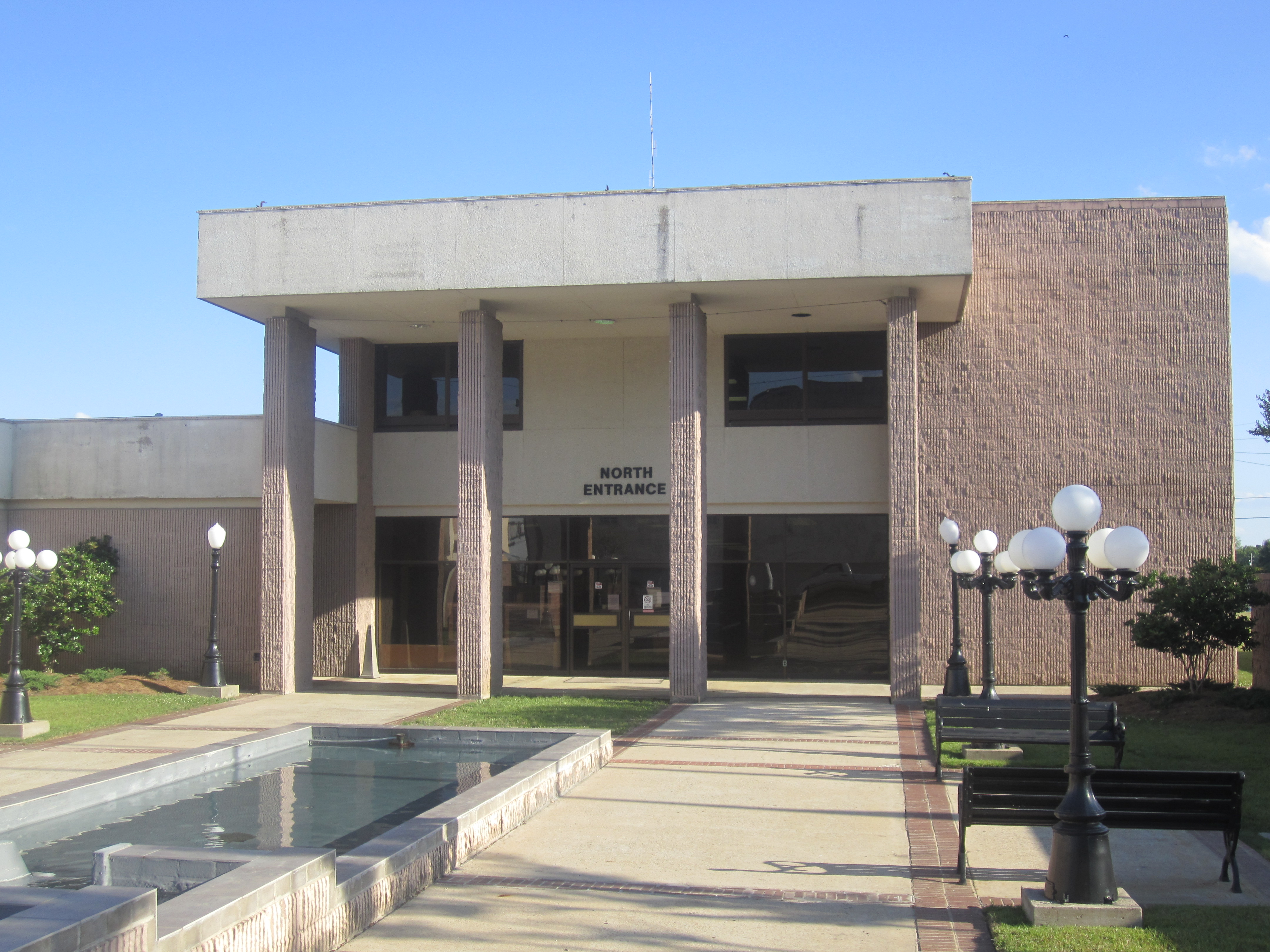 I took photo in Bastrop, LA, with Canon camera: it is the north entrance to City Hall.